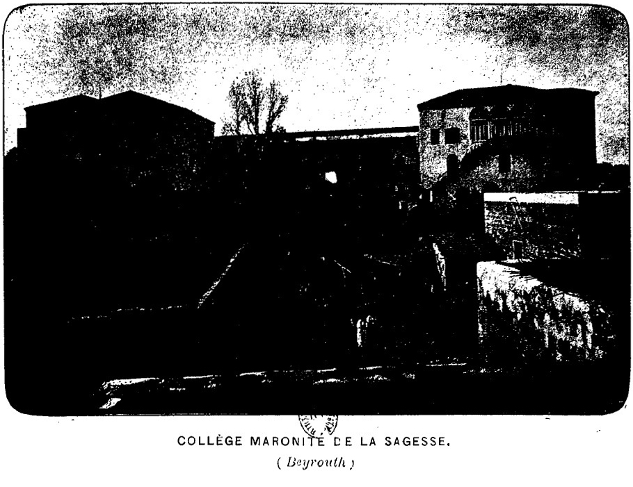 Le Jubilé épiscopal de Mgr (...)Saint-Ouen Th bpt6k5611424t